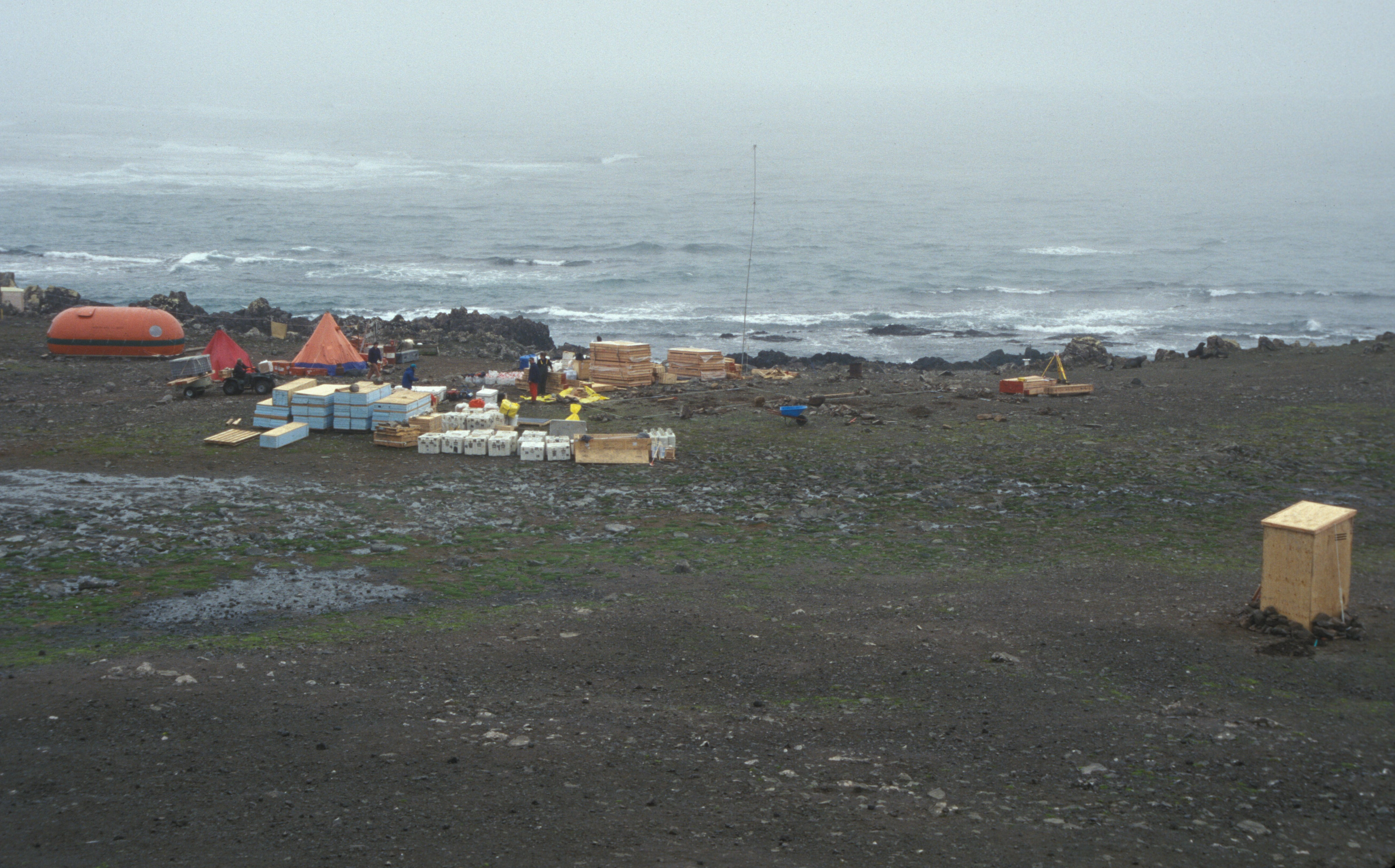 Building the field station at Cape Shirreff, Livingston Island